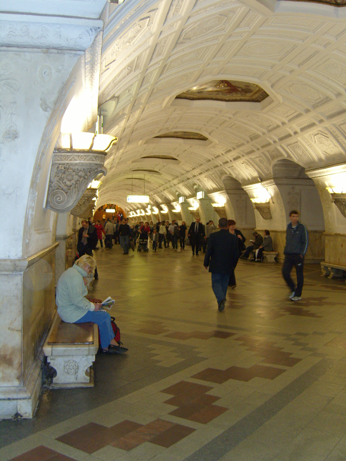 Central hall of Moscow metro station "Belorusskaya" (Kolcevaya Line)